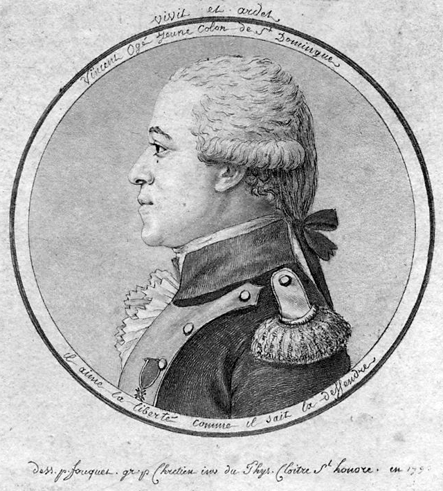 French abolitionist Vincent Ogé (1755-1791)